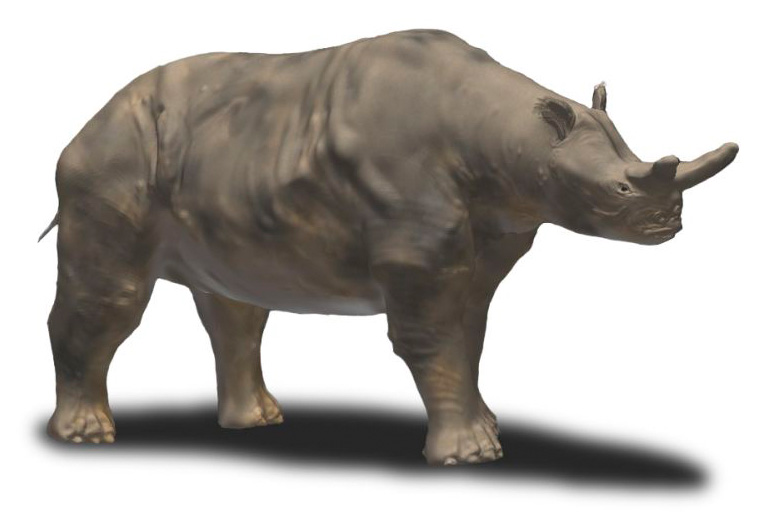 Megacerops sp., north american brontothere from the Eocene. Digital.